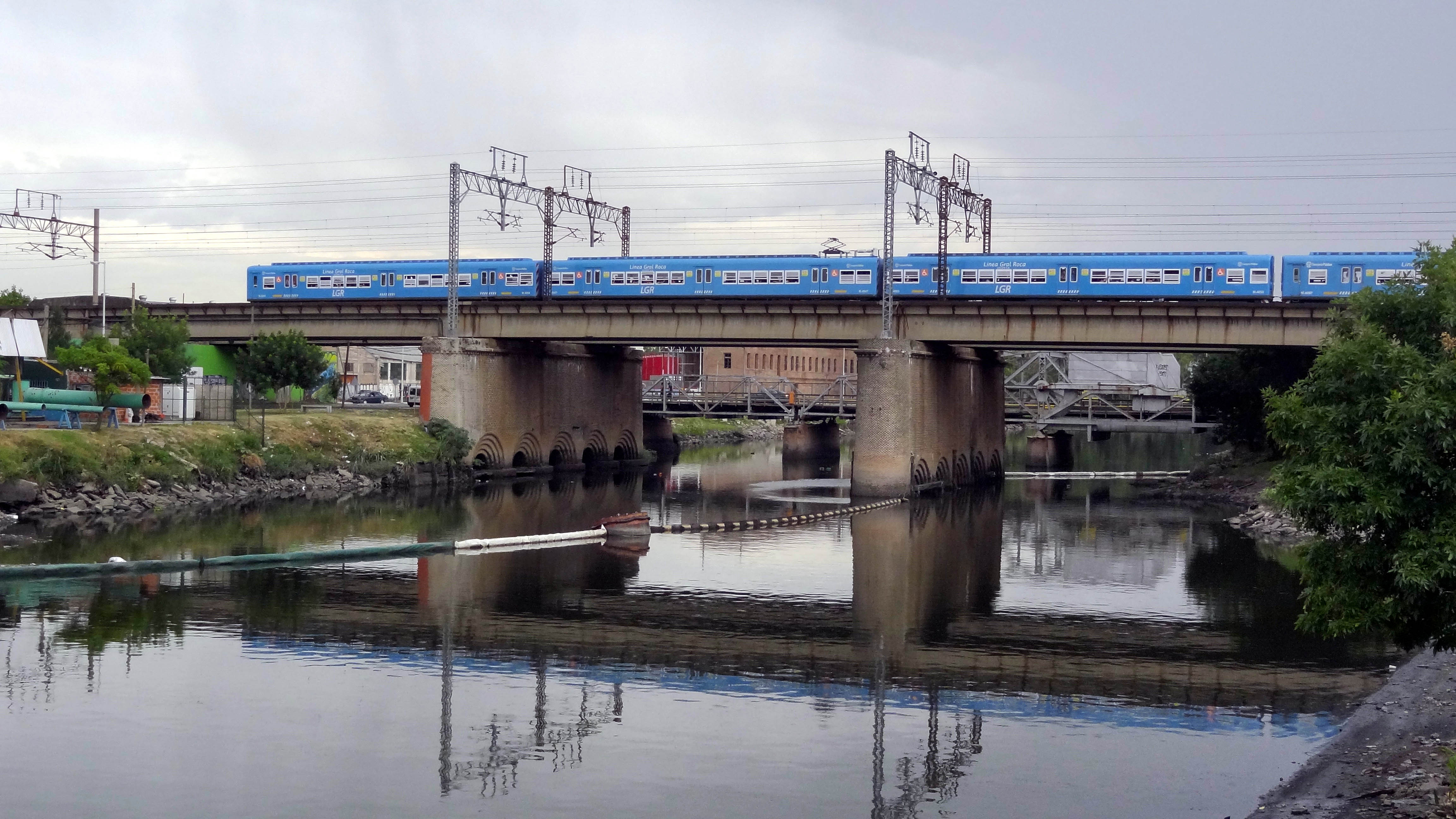 Roca Line EMU crossing a bridge over the Riachuelo.